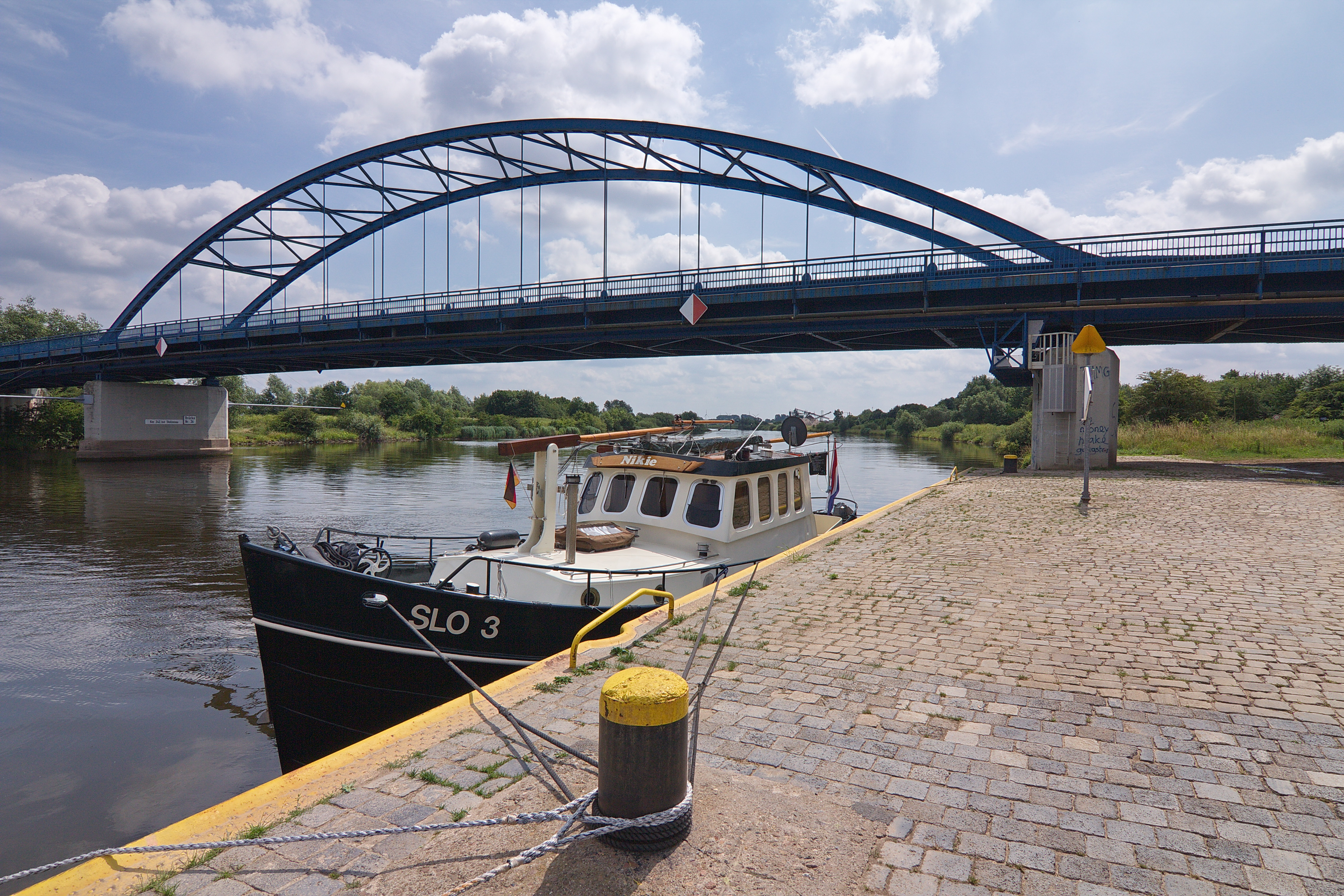 Hafen vor der Weserbrücke in Stolzenau, Niedersachsen, Deutschland